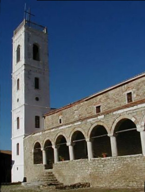 Monastery Ardenice near Fier (Albania)